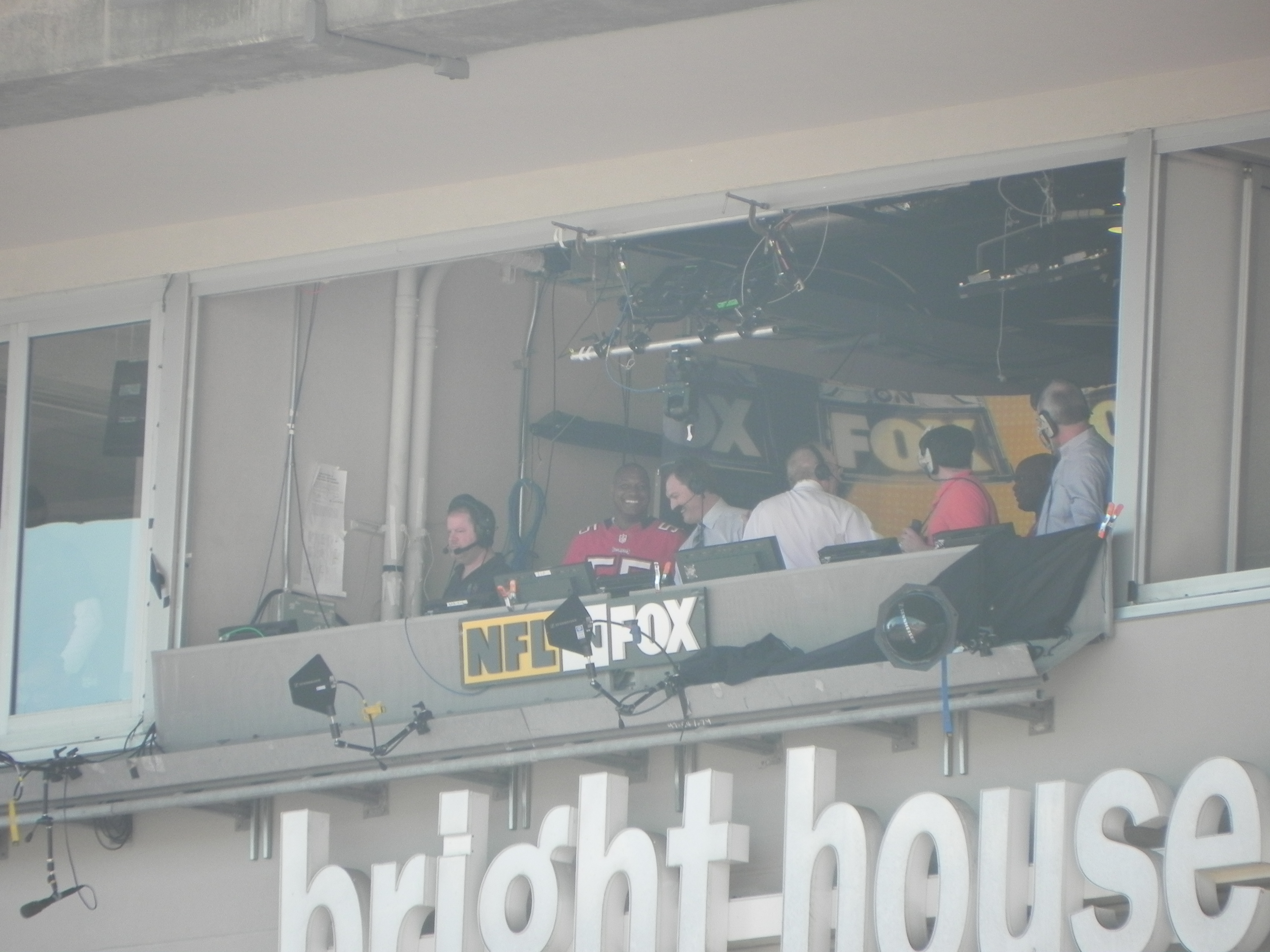 Television booth at Raymond James Stadium. In the booth are Derrick Brroks, John Lynch, and Dick Stockton